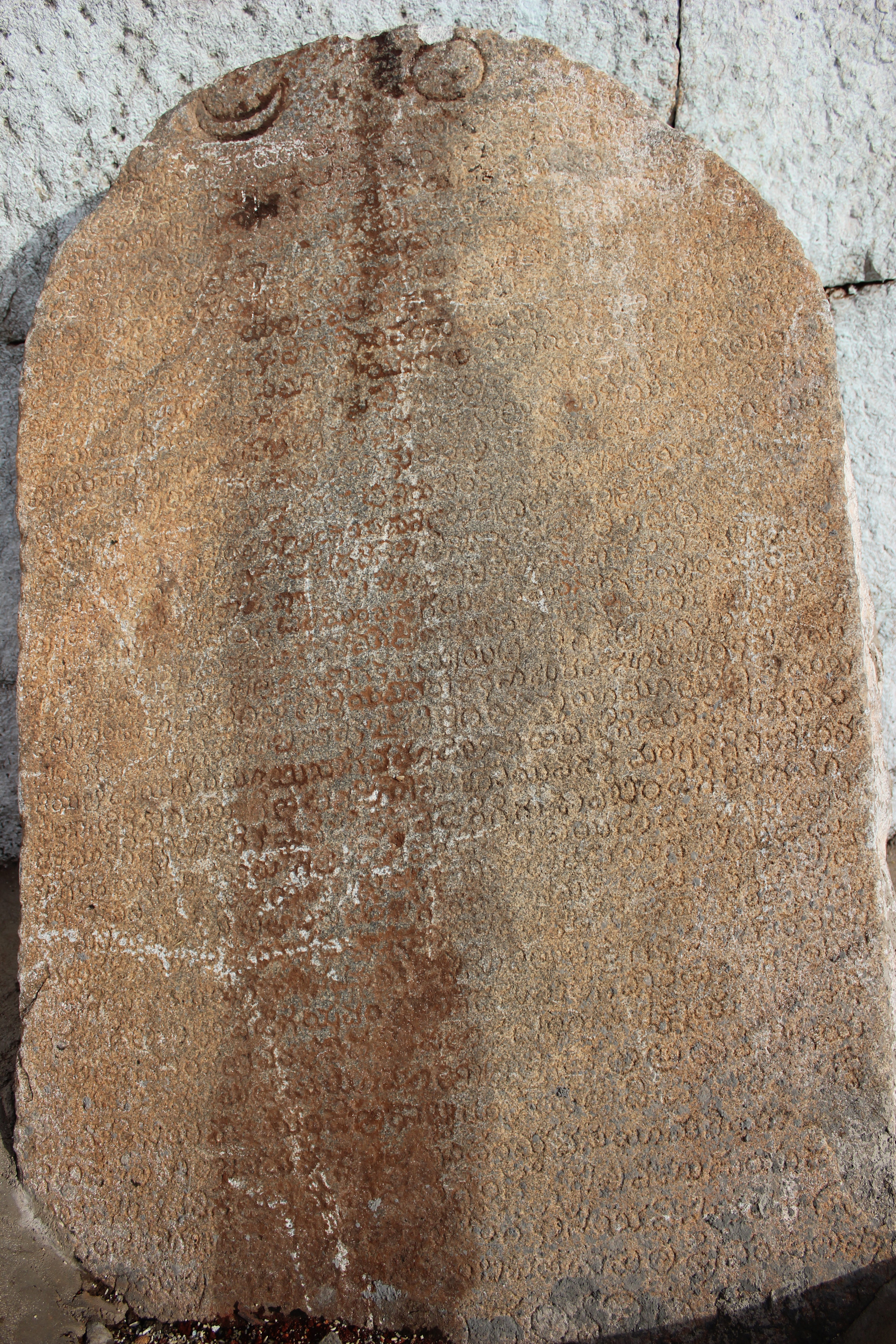 This photograph of a Kannada inscription dated 1412 AD was taken by me at the Mallikarjuna temple in Mallapangudi, near Hospet, Bellary district, Karnataka state, India. The temple was constructed during the rule of King Deva Raya I (1406-1422 AD) of the Vijayanagara Empire. Source: South Indian Inscription, Volume IX, Kannada Inscriptions from Madras Presidency, Miscellaneous Inscriptions in Kannada, Part II, Dynasties of Vijayanagara, no. 436, editors:Shama Sastry and Lakshminarayana Rao, url= publisher=Archaeological Survey of India, New Delhi